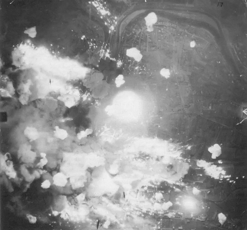 An RAF night bombing photograph taken using the 'master/slave' camera technique. The aircraft lower down are Avro Lancasters.